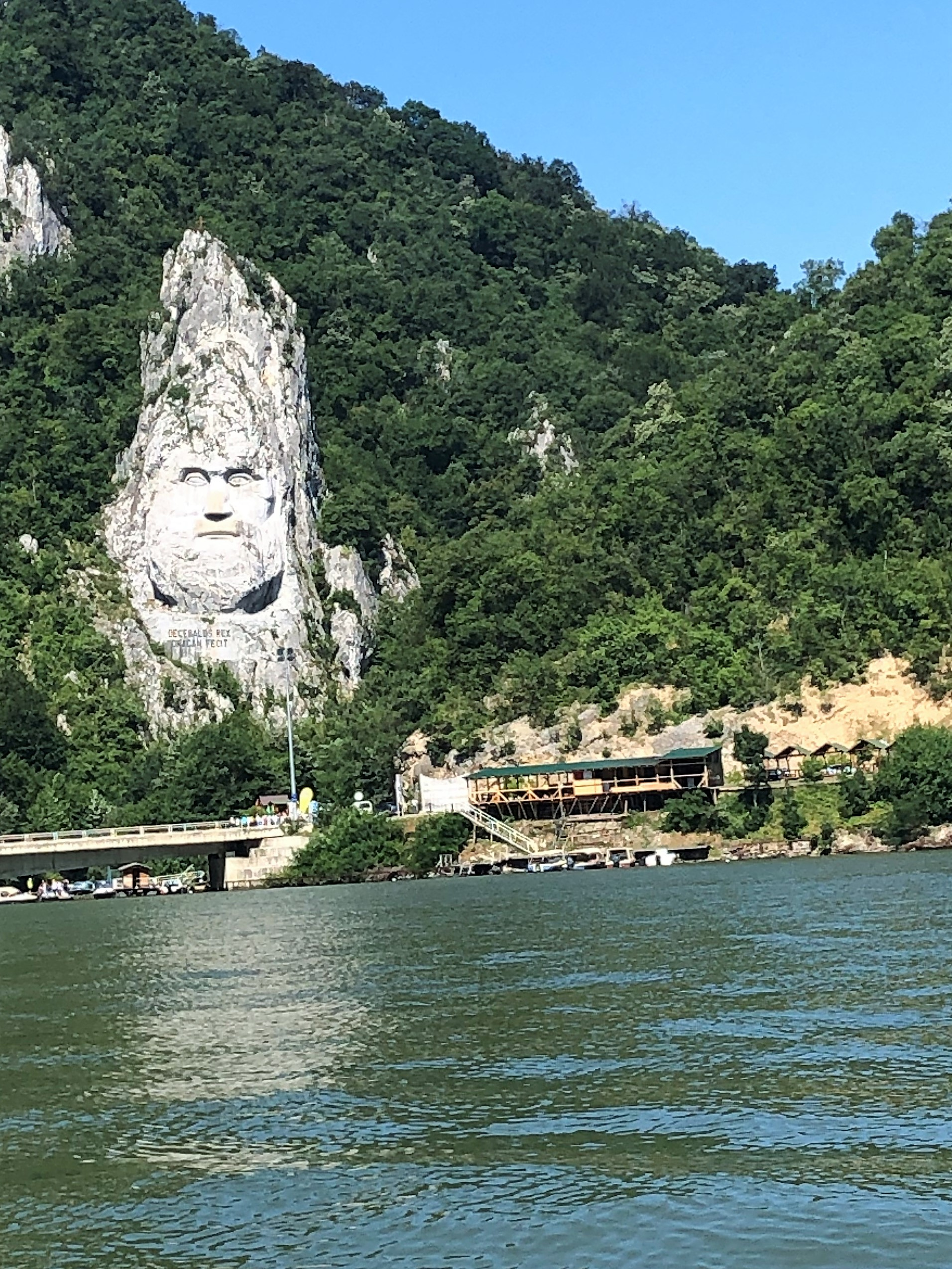 Engraving of Decebalus in a mountain in the Iron Gates. Srpski (latinica): Urezan Decebal u planini u Đerdapskoj klisuri.